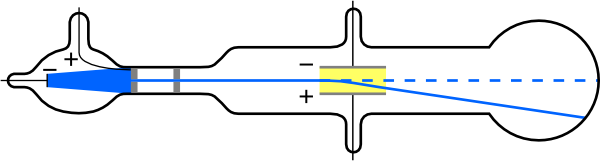 Thomson's cathode ray experiment, 1897. Thomson observed that a cathode ray (the blue line) can be deflected by an electric field (yellow).